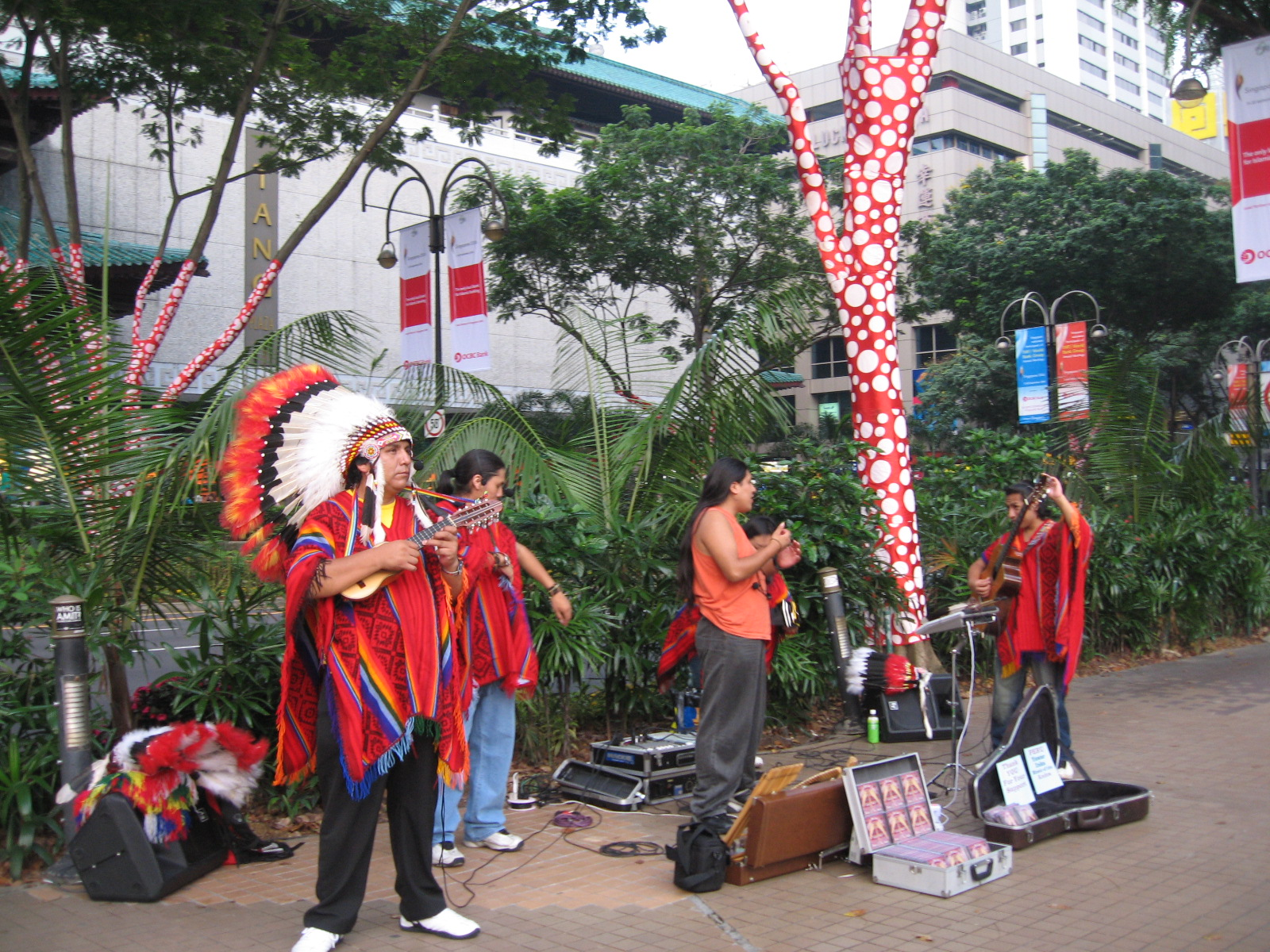 Street busking along Orchard Road, Singapore.